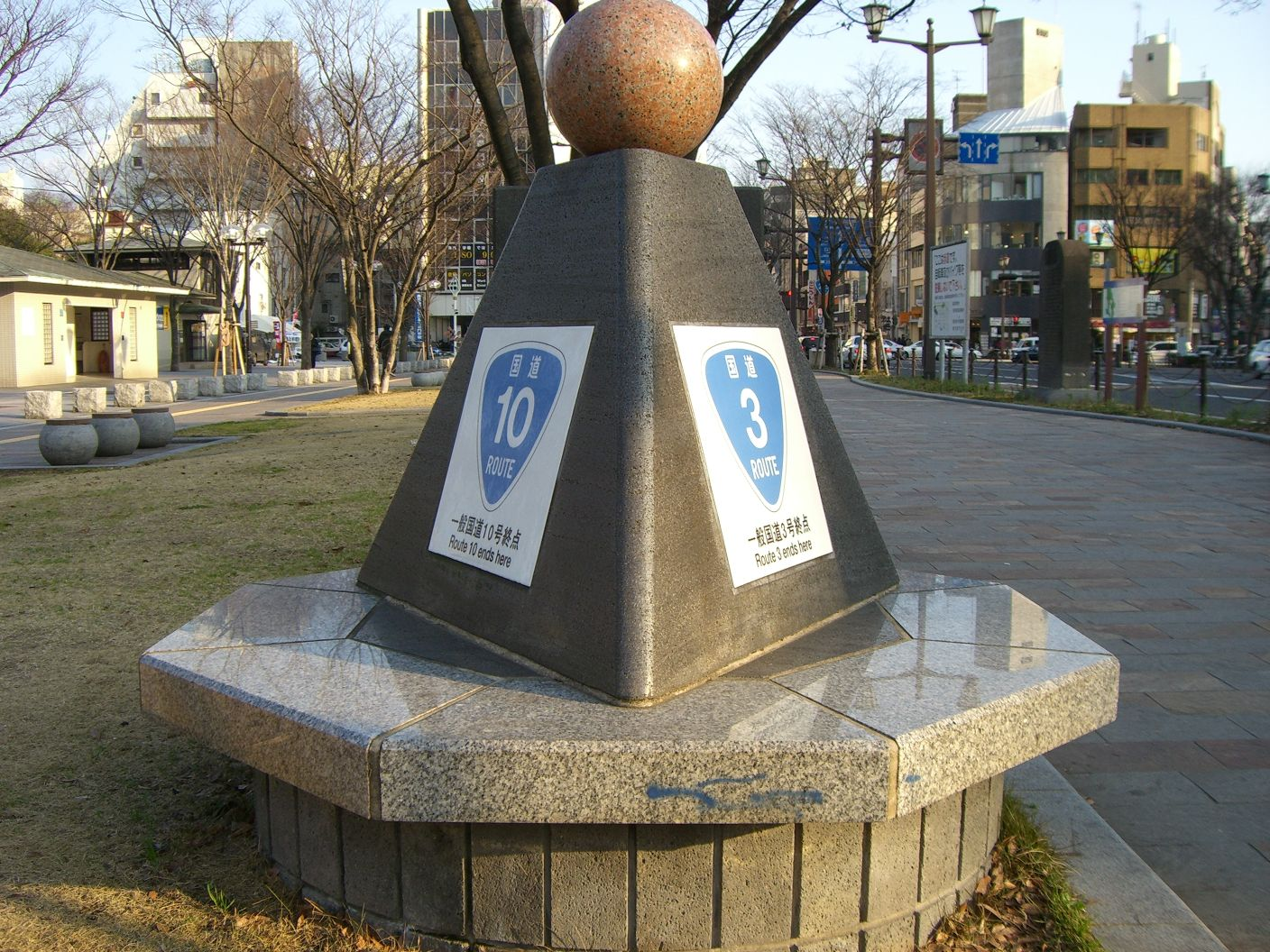 Ending milestone of Route 3, Route 10 and Route 225 at the central park in Kagoshima City, Kagoshima, Japan.(鹿児島市中央公園にある国道3号、国道10号、国道225号の終点標柱。三角錐の裏側に225号の標示がある)